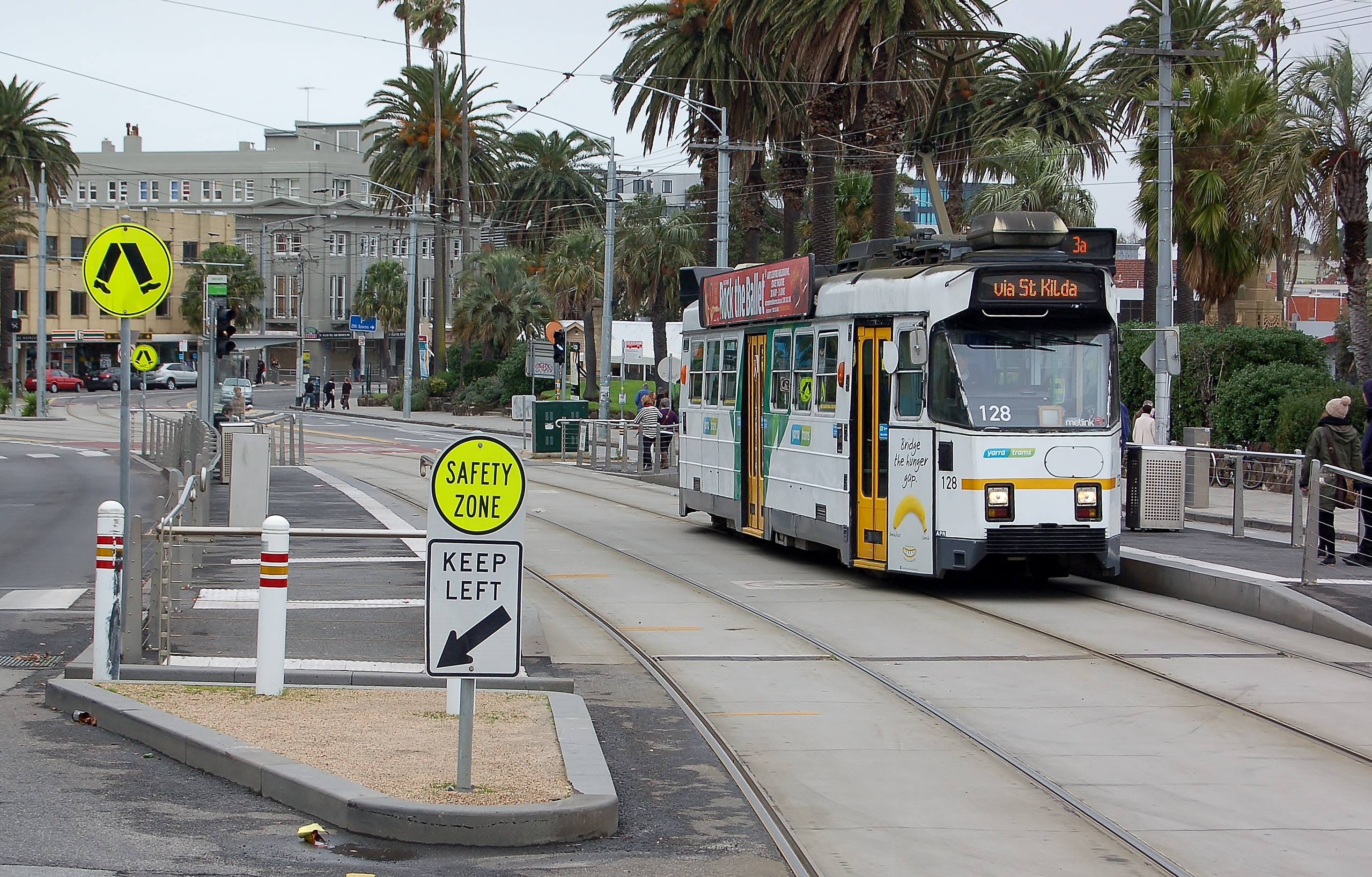 Z3 class Melbourne tram no 128, operating a route 3a weekend service to Melbourne University, embarks passengers at the Superstop in The Esplanade, St Kilda, right outside Luna Park. In the background at left is the intersection between The Esplanade, Carlisle Street and Acland Street.